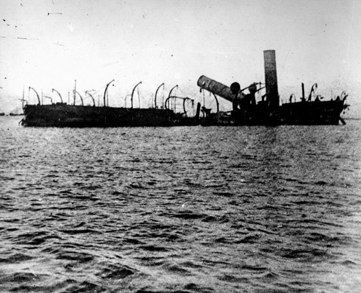 Wreck of the Spanish cruiser Reina Cristina, photographed from off its starboard quarter, sometime after the battle. Photo #: USN 902936. Donation of Lt. C.J. Dutreaux, USNR (Ret), 1947.